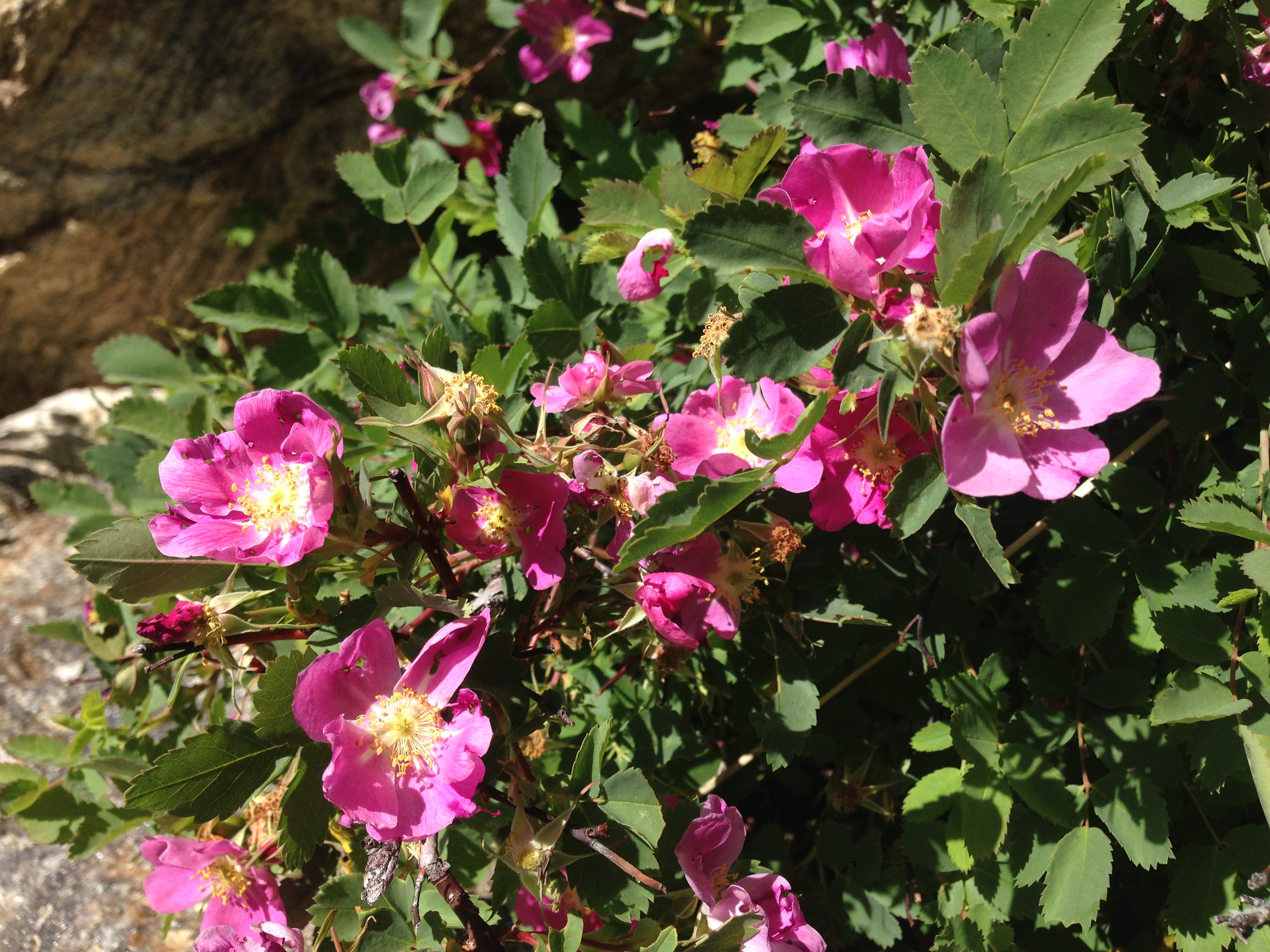 Rosa woodsii at the Entrance Overlook in Lamoille Canyon, Nevada